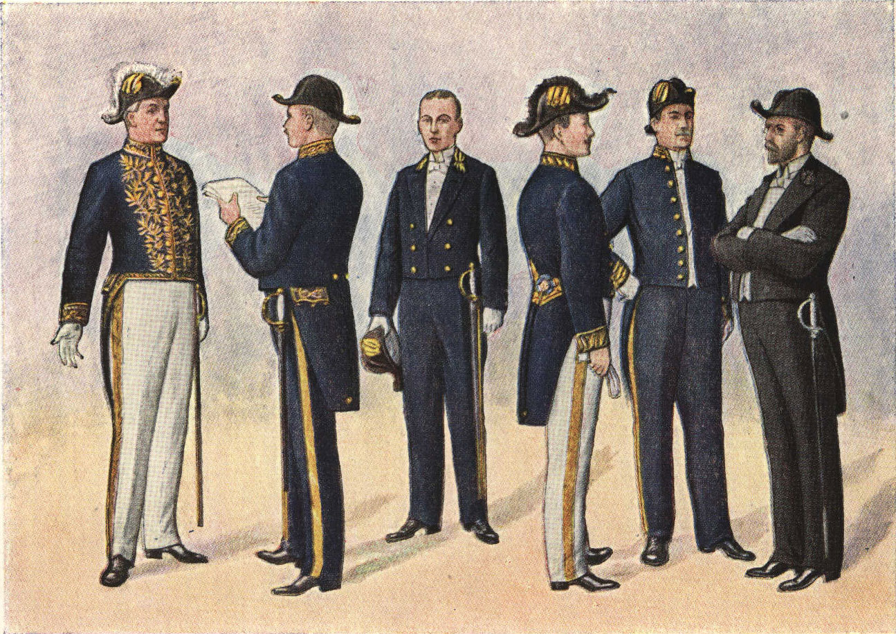 Swedish civil uniforms, left to right: 1. Envoy. 2. Government Office Uniform (greater). 3. Government Office Uniform (lesser). 4. Chamberlain. 5. Justice of the Supreme Court. 6. Member of the Academy of Sciences.